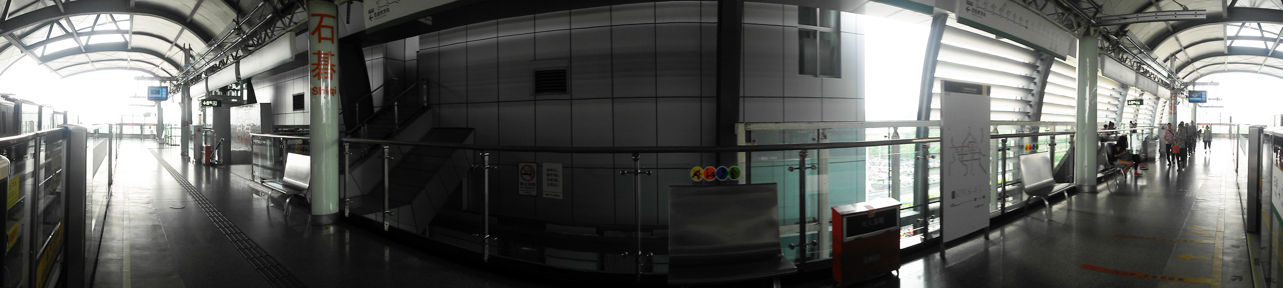 廣州地鐵，石碁站嘅月台全景（去金洲嗰邊）。